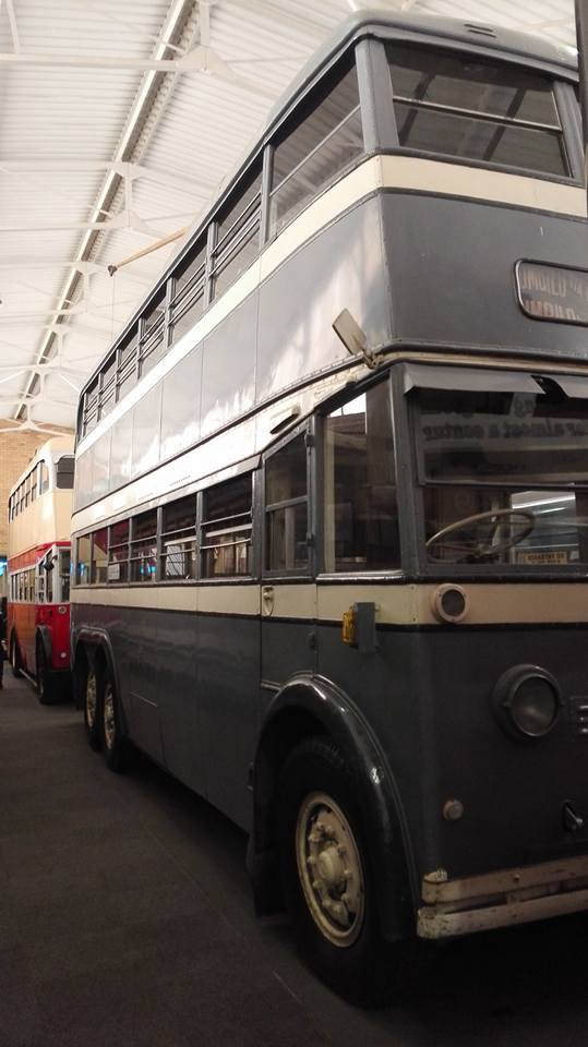 Trolleybus TTB5 iported from UK. Chassis: Leyland, Body: Metro Cammell Weymann, Electric: GEC. Built ca. 1941, taken out of service 1968